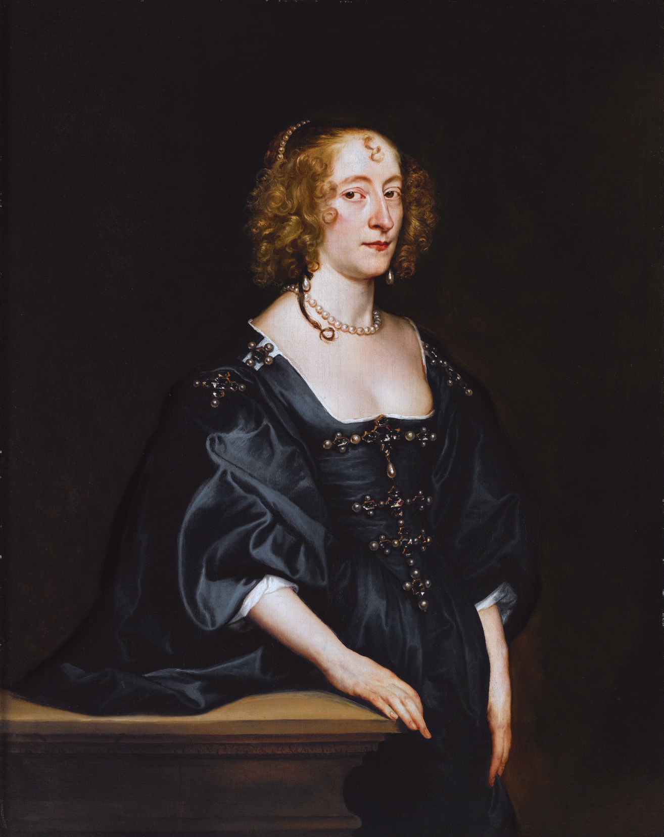 Frances Devereux, Countess of Hertford, and later Duchess of Somerset (1599 - 1674) oil on canvas 120.5 x 96.5 cm